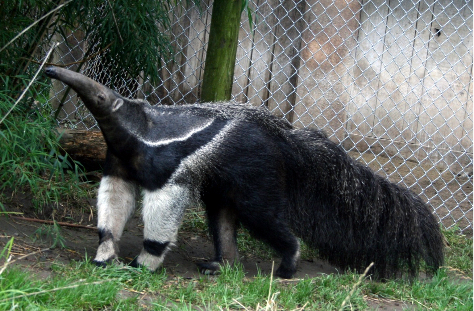 Giant Anteater in San Francisco Zoo The image was taken by Brocken Inaglory